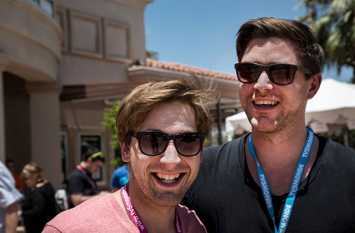 Actor / Producer Luke Schuetzle and Director Christoph Schuler at Palm Springs International Short Fest 2014.